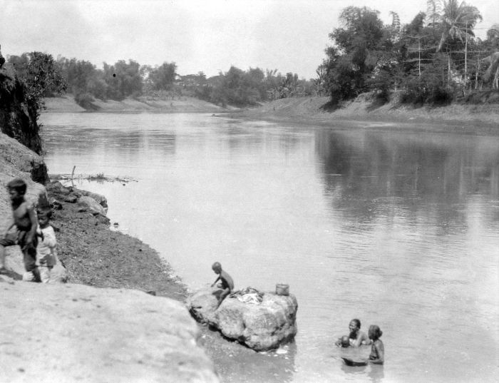 Women and children at the Solo river near Watualang